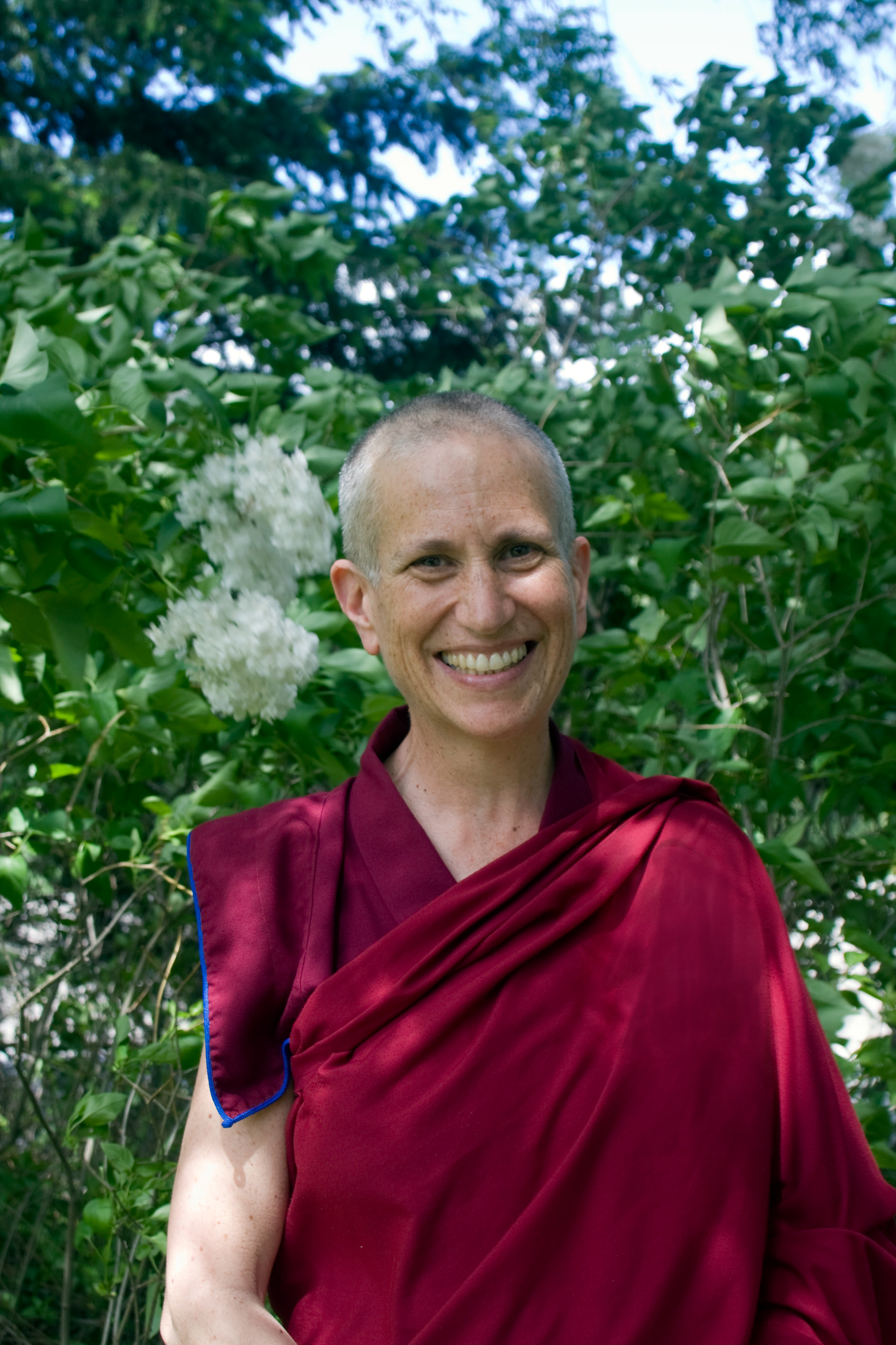 Portrait of Ven Thubten Chodron